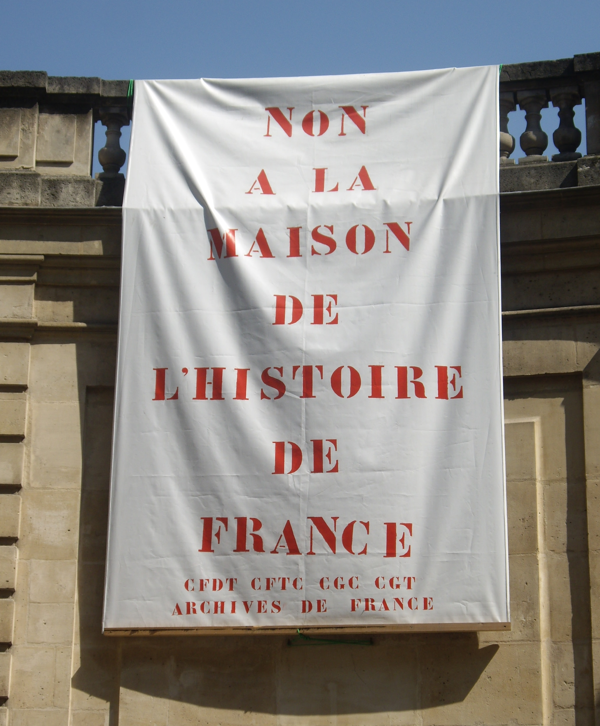 April 2011 banner outside the Hôtel de Soubise, Rue des Francs-Bourgeois in Paris, saying "No" to the projected installation of the Maison de l'Histoire de France on the premises of the National Archives.